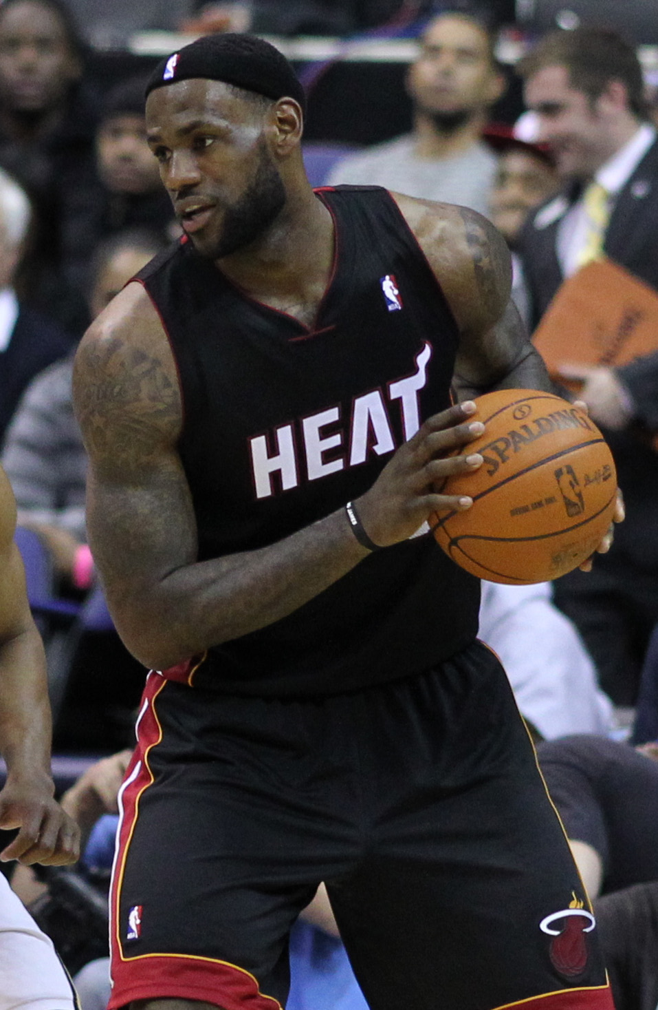 Wizards v/s Heat 03/30/11